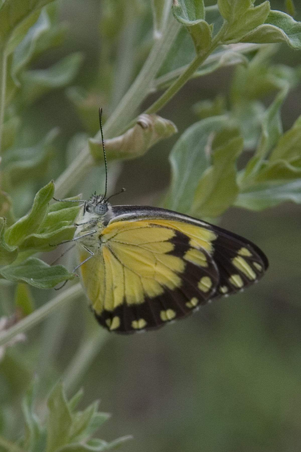 Belenois creona (Cramer, [1776]), African Common White